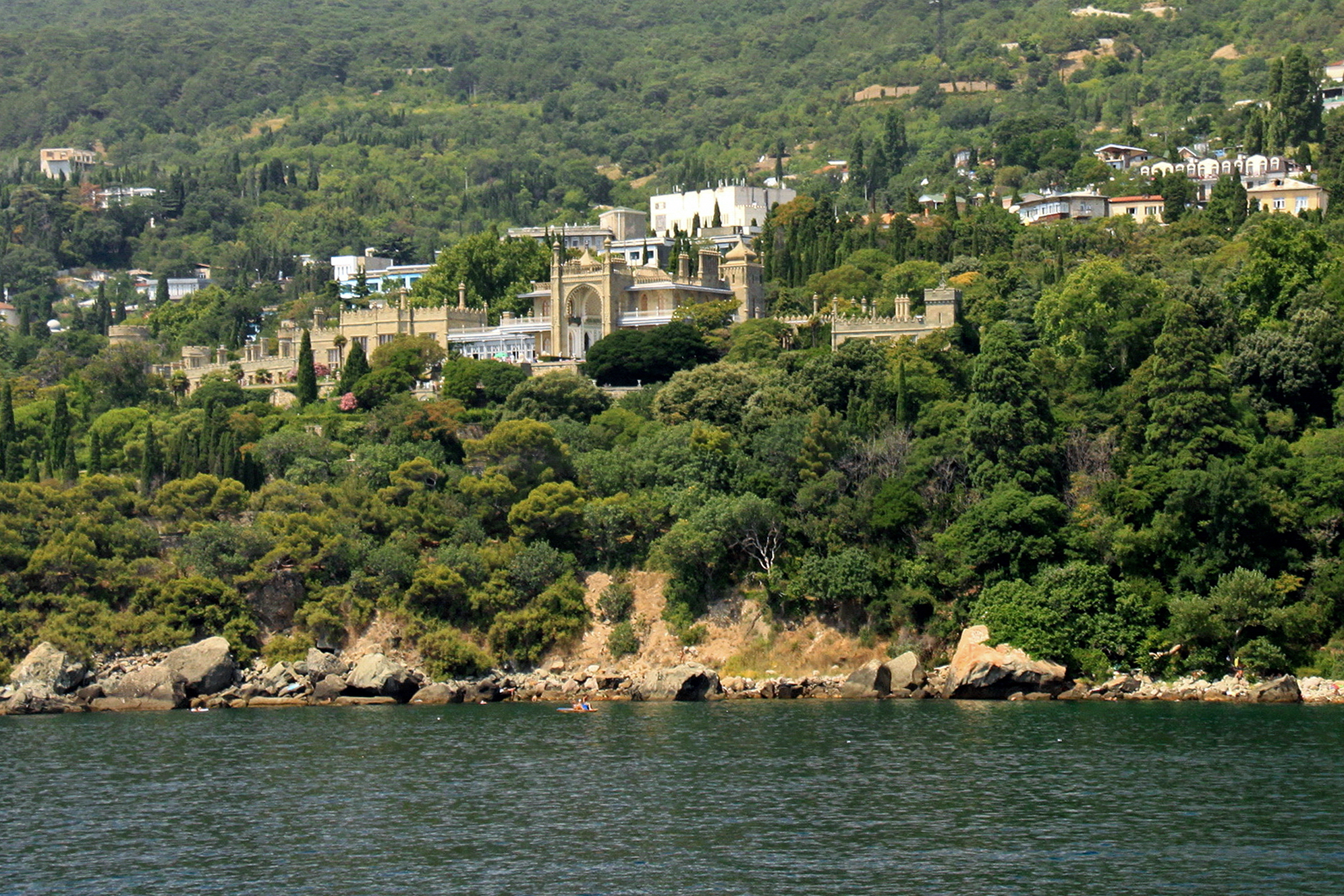 View of the Vorontsov Palace from the ship. Alupka, Crimea.